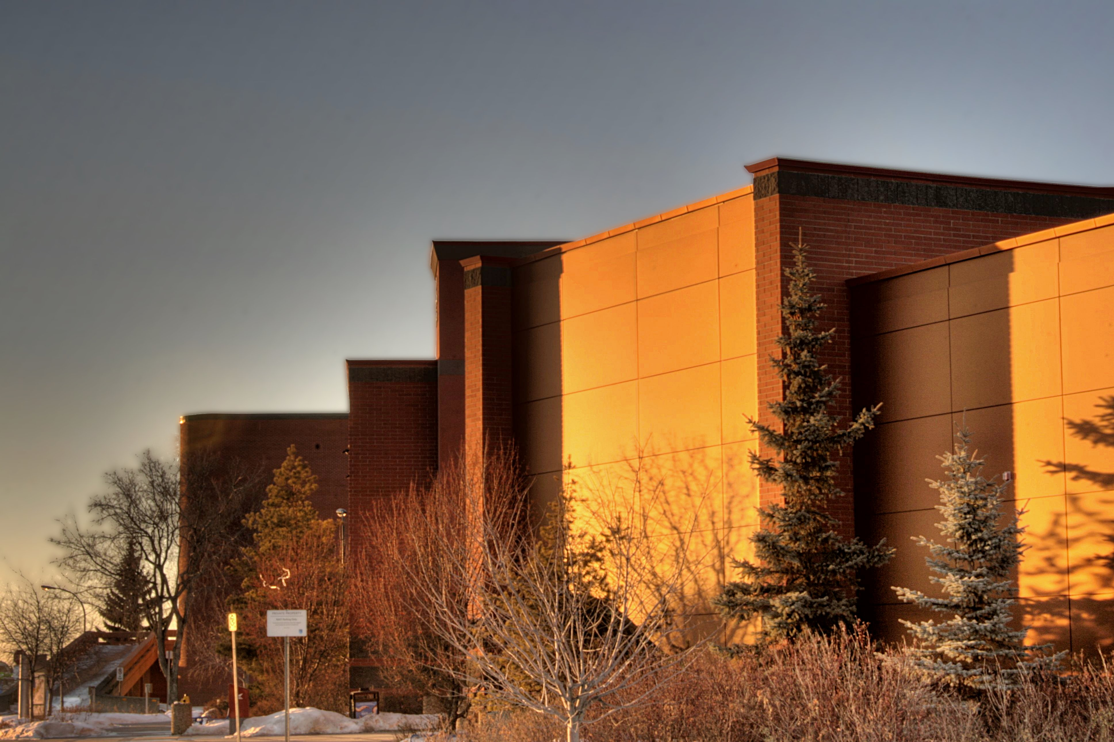 The South Learning Centre on the campus of the Northern Alberta Institute of Technology (NAIT) in Edmonton, Alberta, Canada.